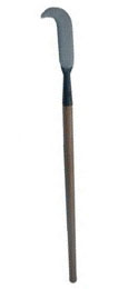 A common variety of bill. Variants may have projections on the back of the main blade.